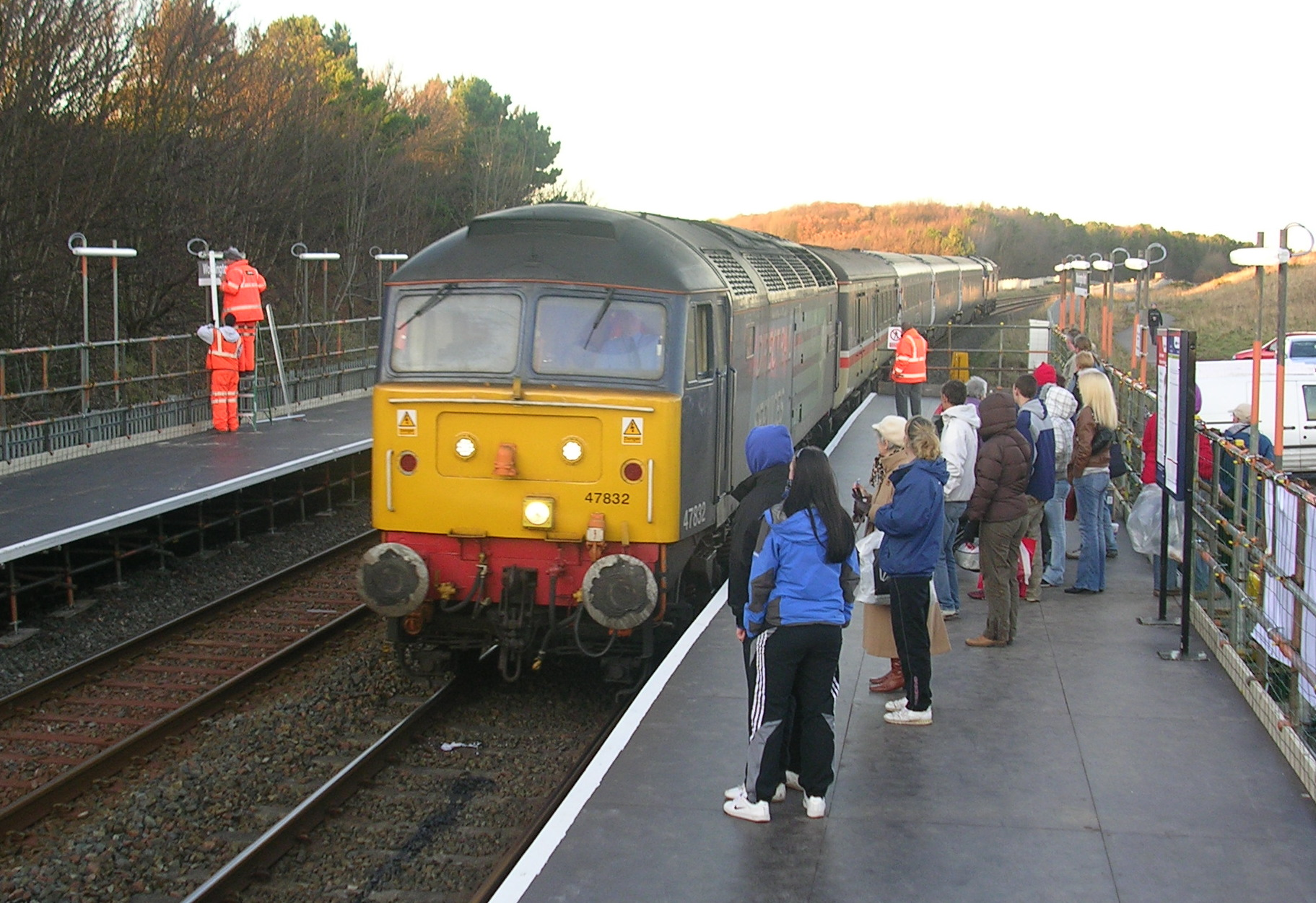 Photographer: Richard LM Byers. Workington North Temporary Station opening day 30-11-2009. 15.14 Temporary Shuttle Service from Maryport to Workington. Hauled by DRS Class 47 (No 832) Diesel Locomotive. Return between these stations is free until the new year.